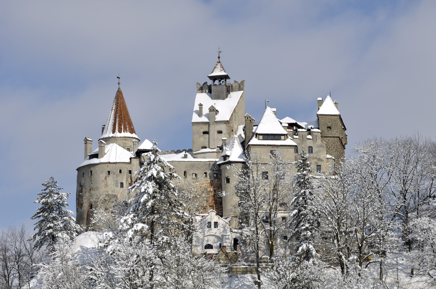 Castelul Bran iarna in Brasov. 01